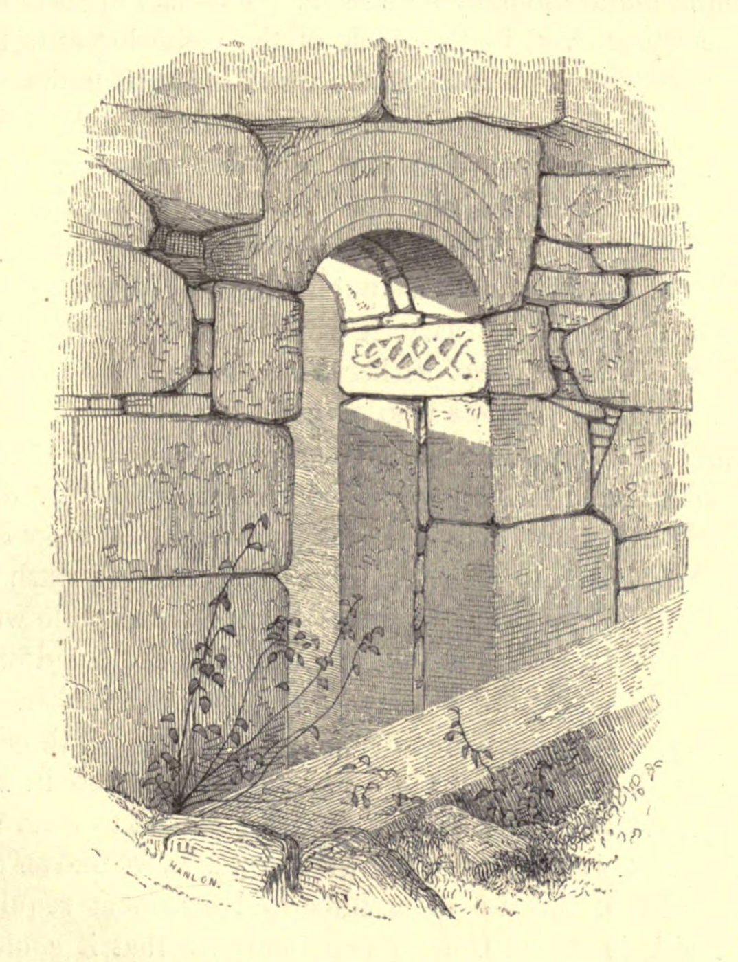 Drawing of the doorway of Teampall Deirbhile in An Fál Mór (Fallmore) by Patrick Hanlon. Note the signature of the artist in the lower left: “Hanlon”.